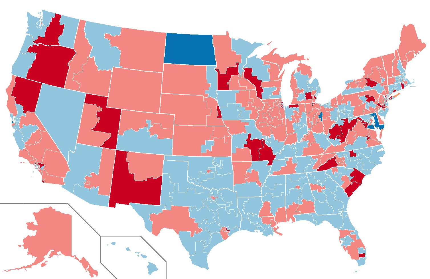 This map shows the results of the 1980 House Elections.